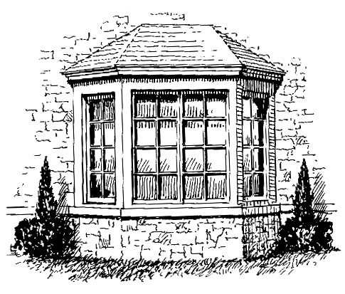 Line art drawing of a bay window.